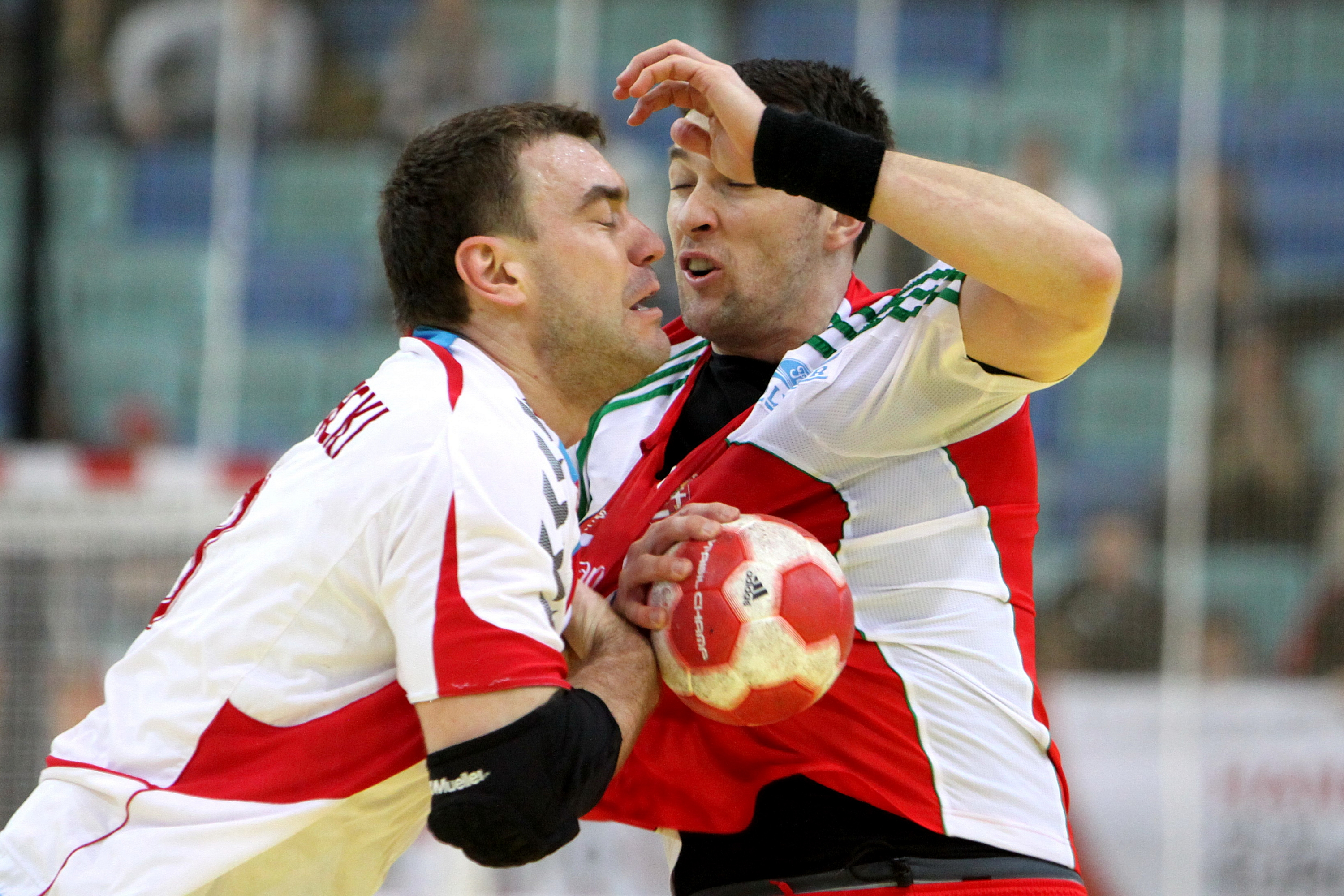 Bartosz Jurecki (Poland national handball team, left) against Ferenc Ilyés (Hungary national handball team, right)